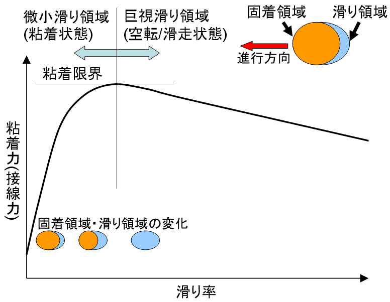 Graph of adhesion force against creep ratio in adhesion railway, Japanese version.